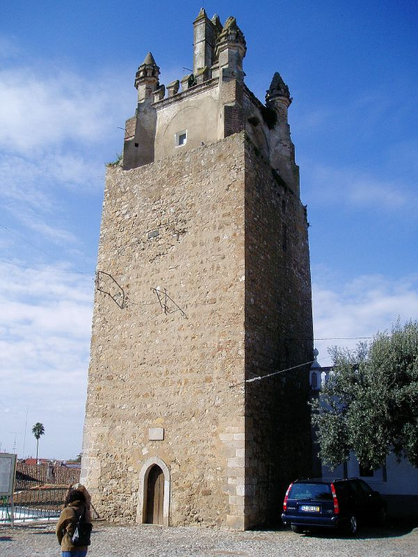 Clock Tower of Serpa, Portugal